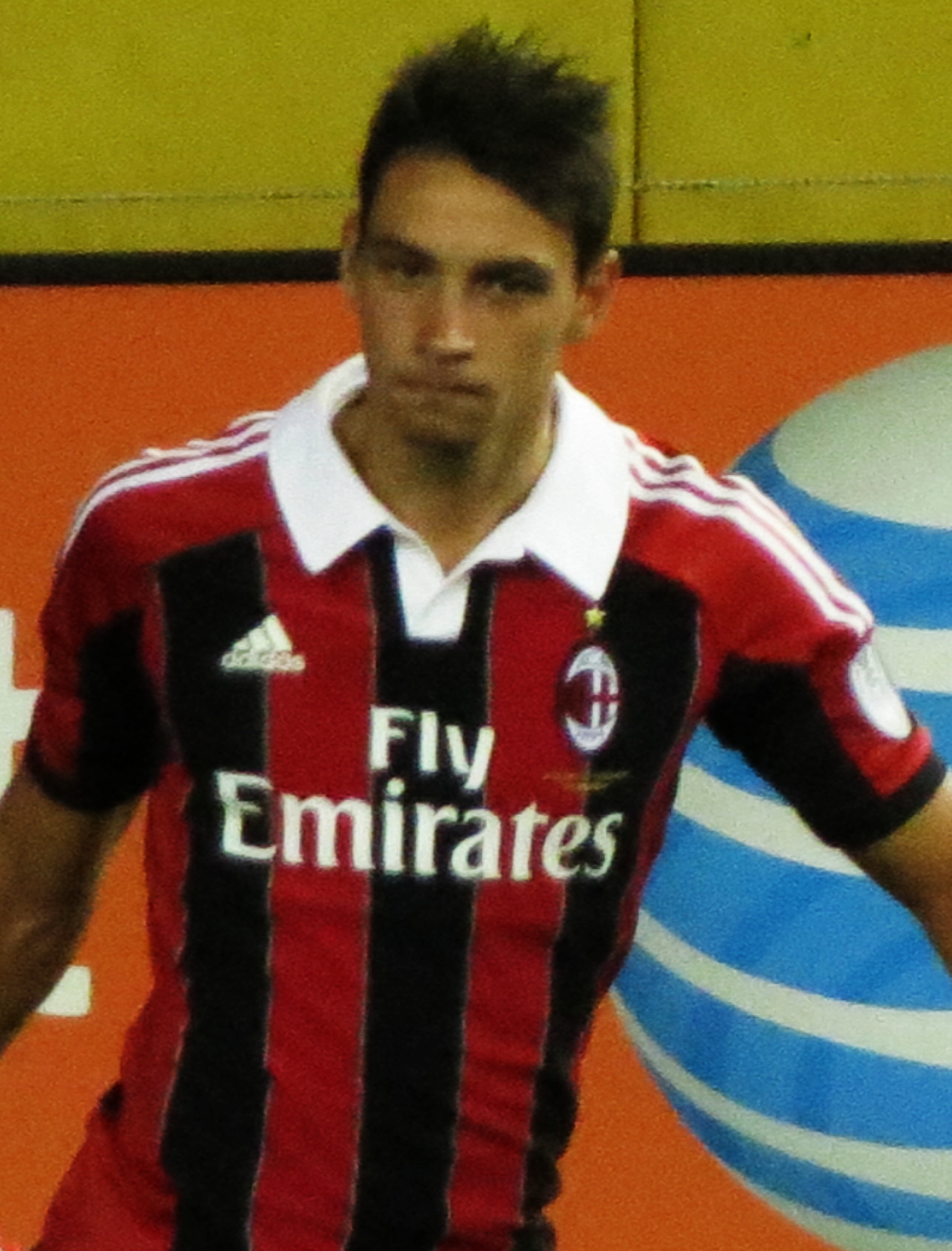 Mattia De Sciglio stretching before he enters the field against Real Madrid in August 2012.